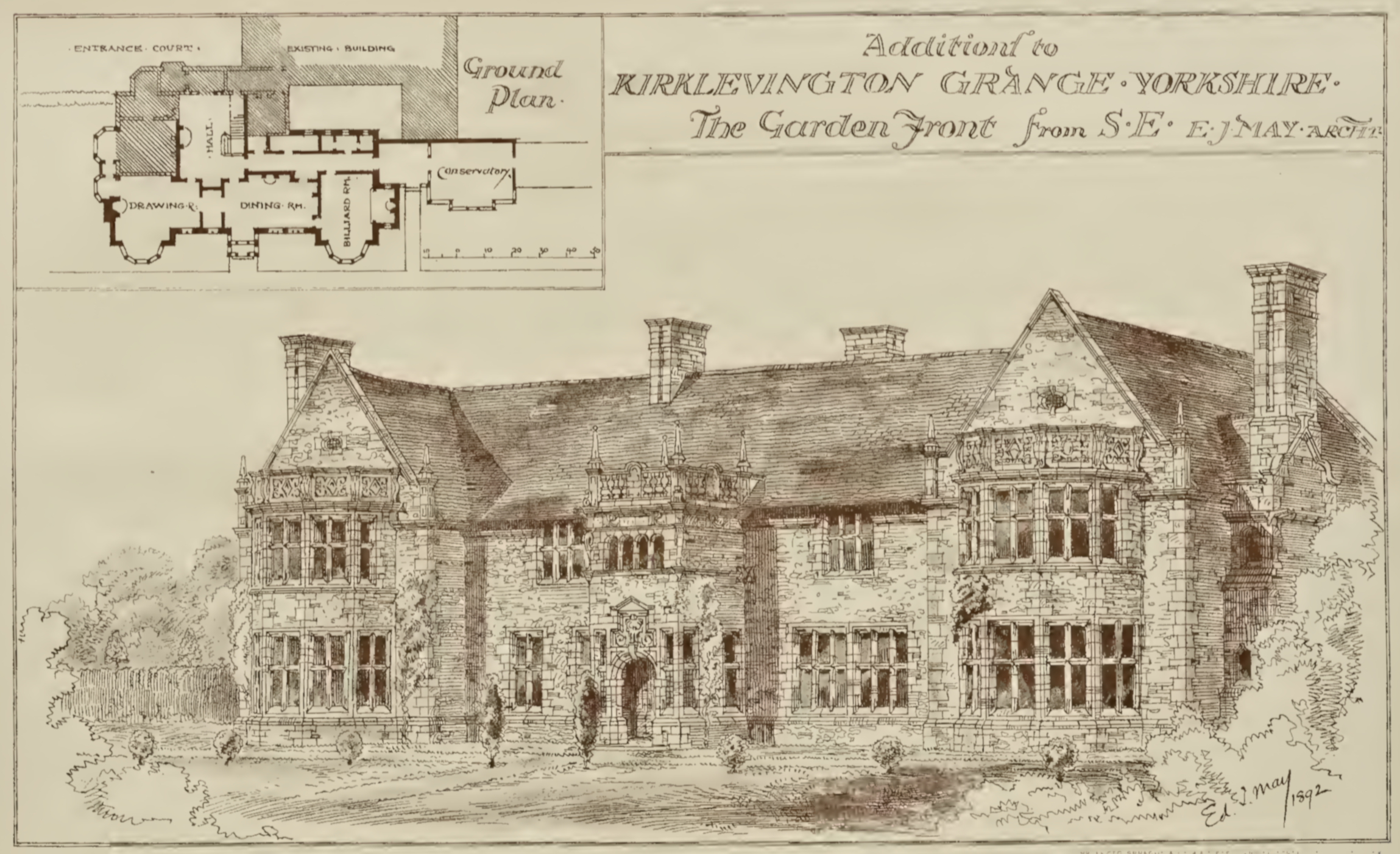 Kirklevington Grange, North Yorkshire - architect's drawing